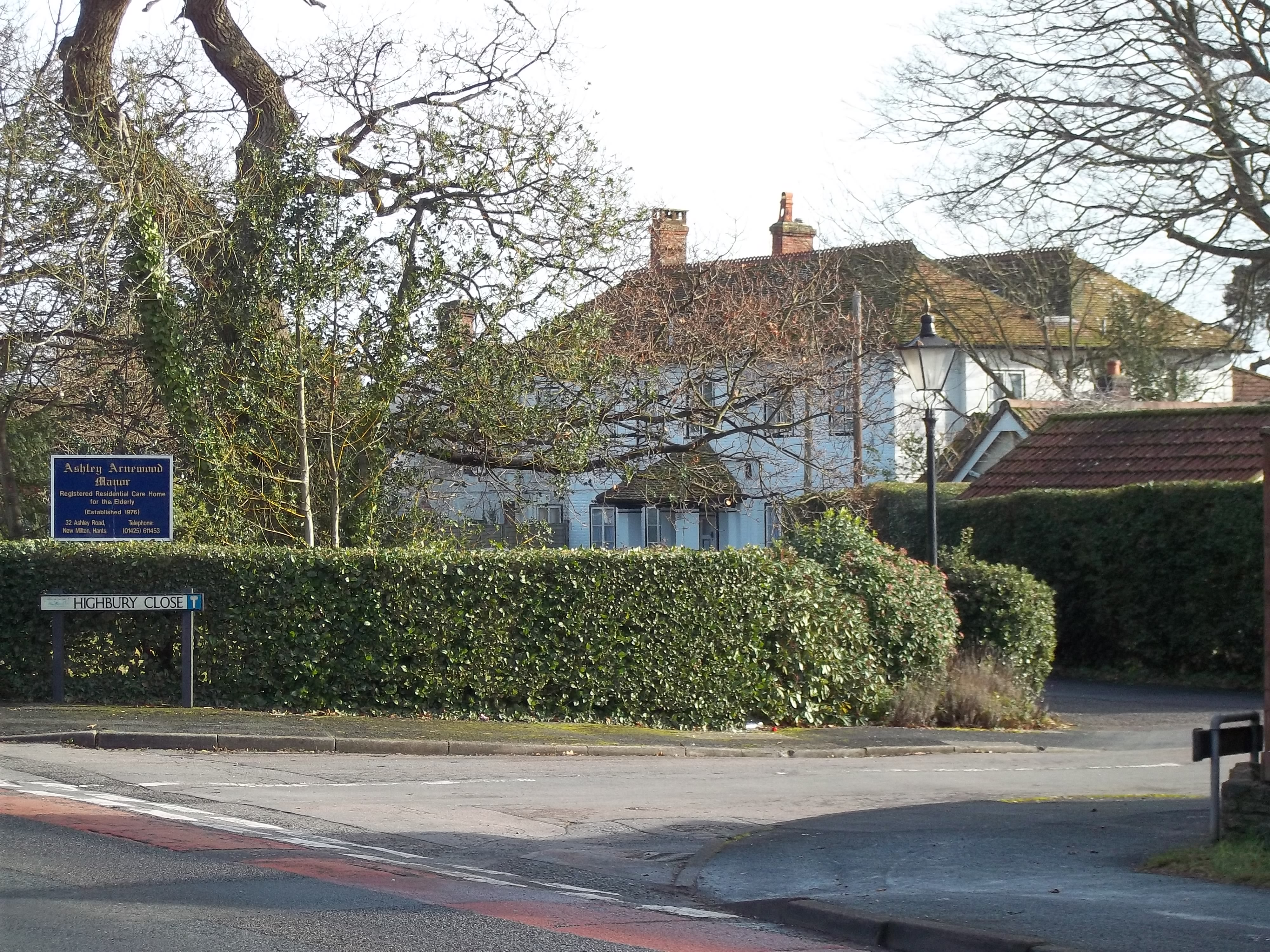 Former manor house located in Ashley, New Milton, Hampshire. The building is early 19th century, with an 18th century wing. Former owners include John Arthur Roebuck, and Auberon Herbert. It is now a care home.